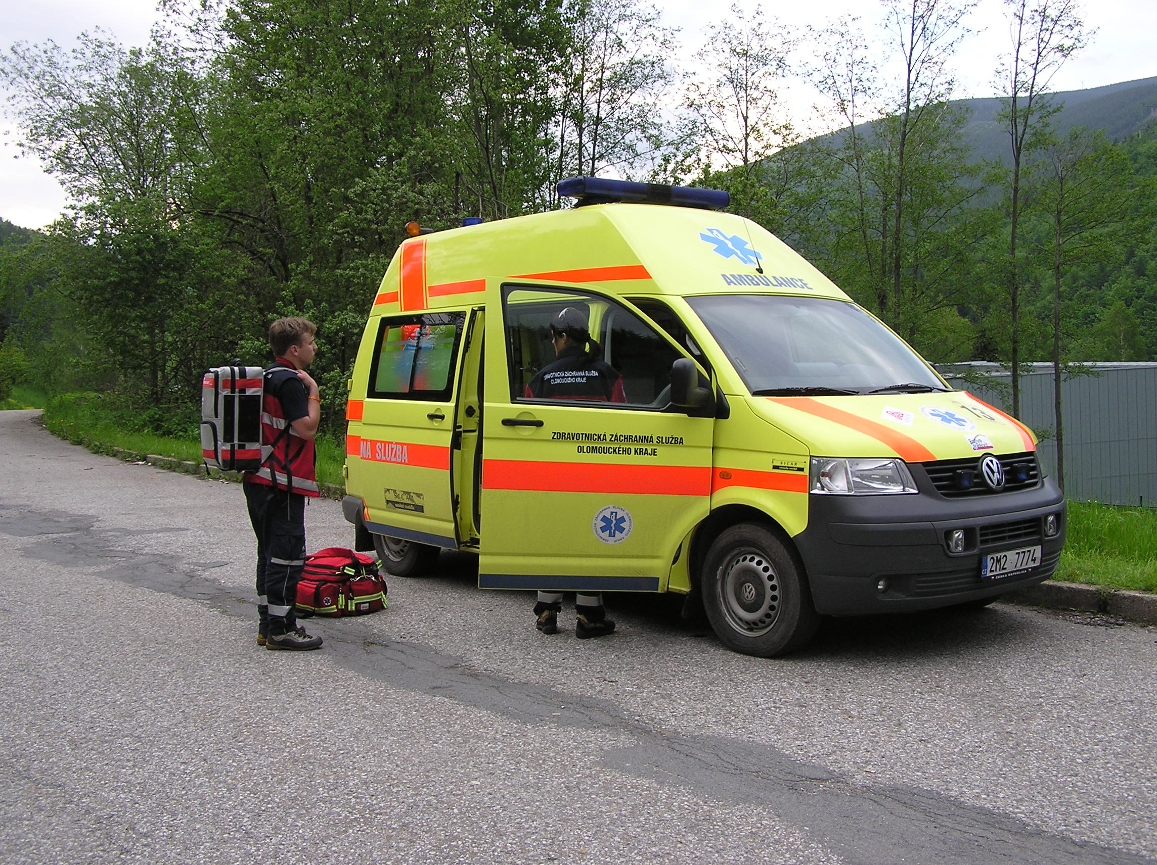 Ambulance vehicle of the Emergency Medical Services of the Olomouc Region, Czech Republic. Photo was made on the international competition Rallye Rejvíz in the Jeseník, Czech Republic